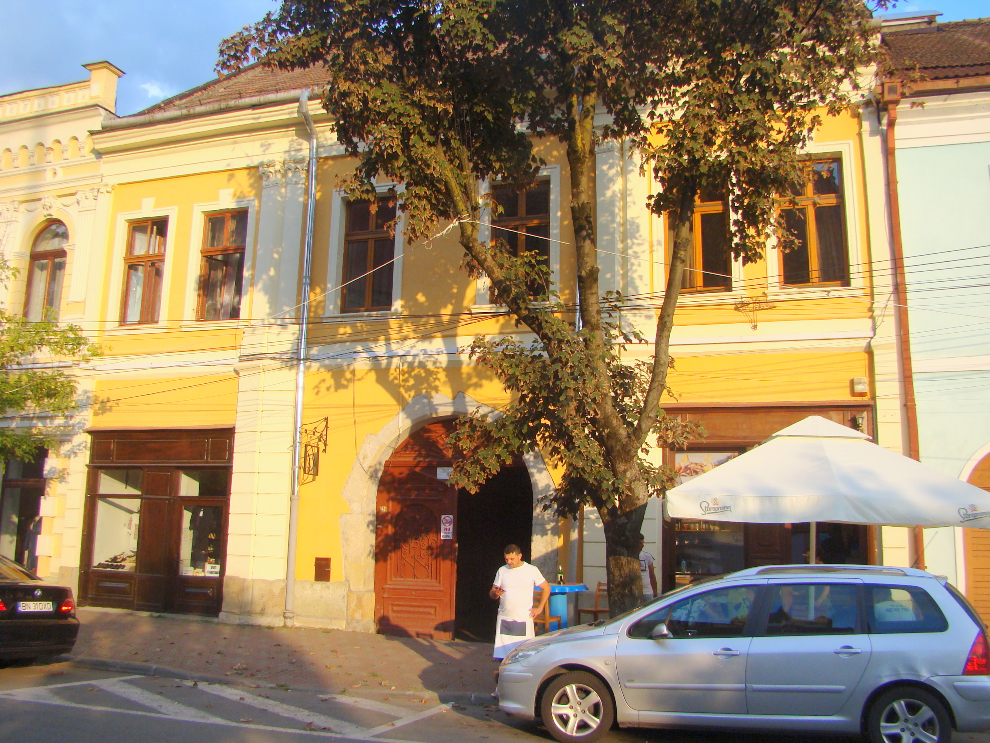 House, historic monument, in Bistrița, Piața Centrală 42